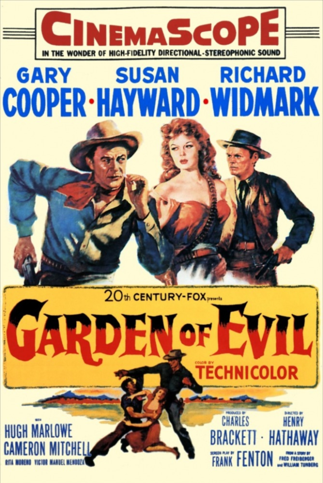 Poster - Garden of Evil, directed by Henry Hathaway (1954), with Gary Cooper, Susan Hayward and Richard Widmark